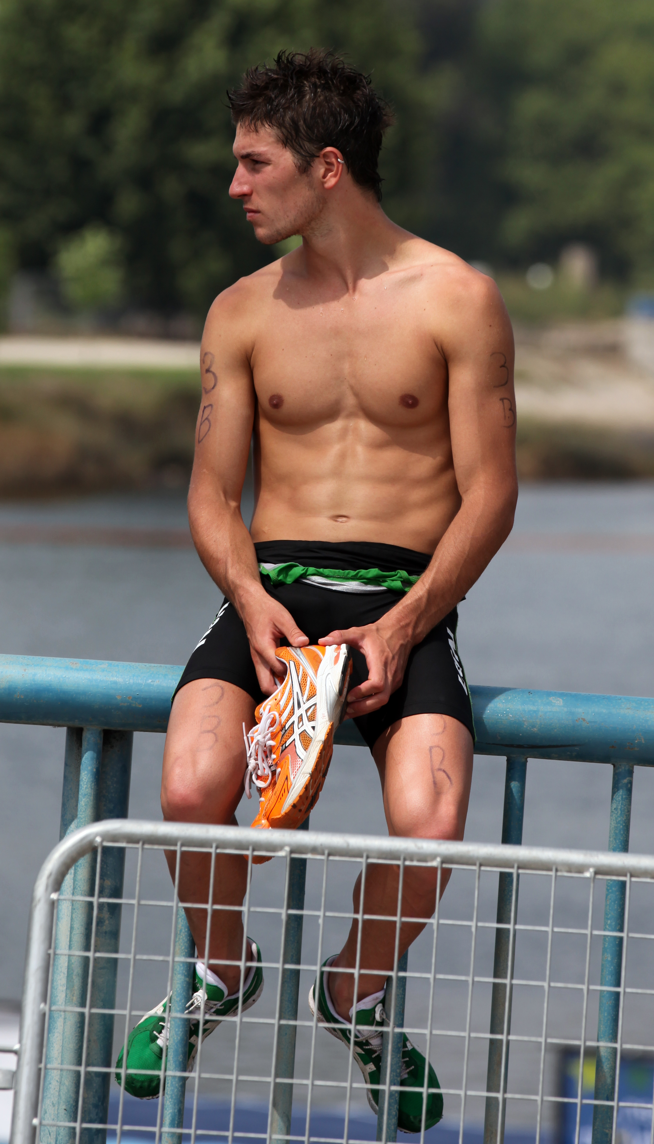 Joao Pereira at the European Triathlon Championships in Pontevedra, 2011.